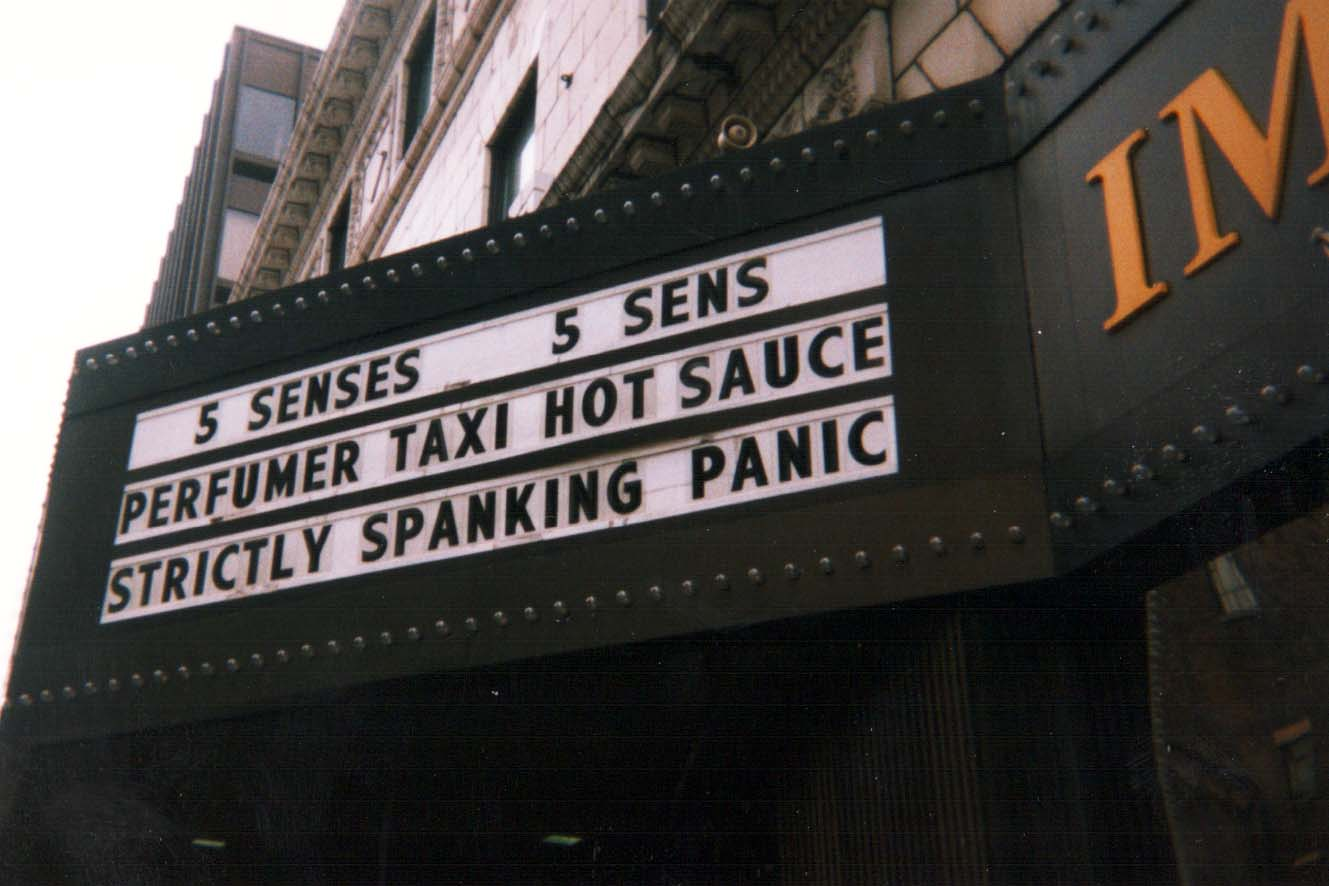 The senses at cinema imperial